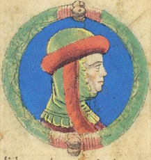 Aldobrandino III d'Este